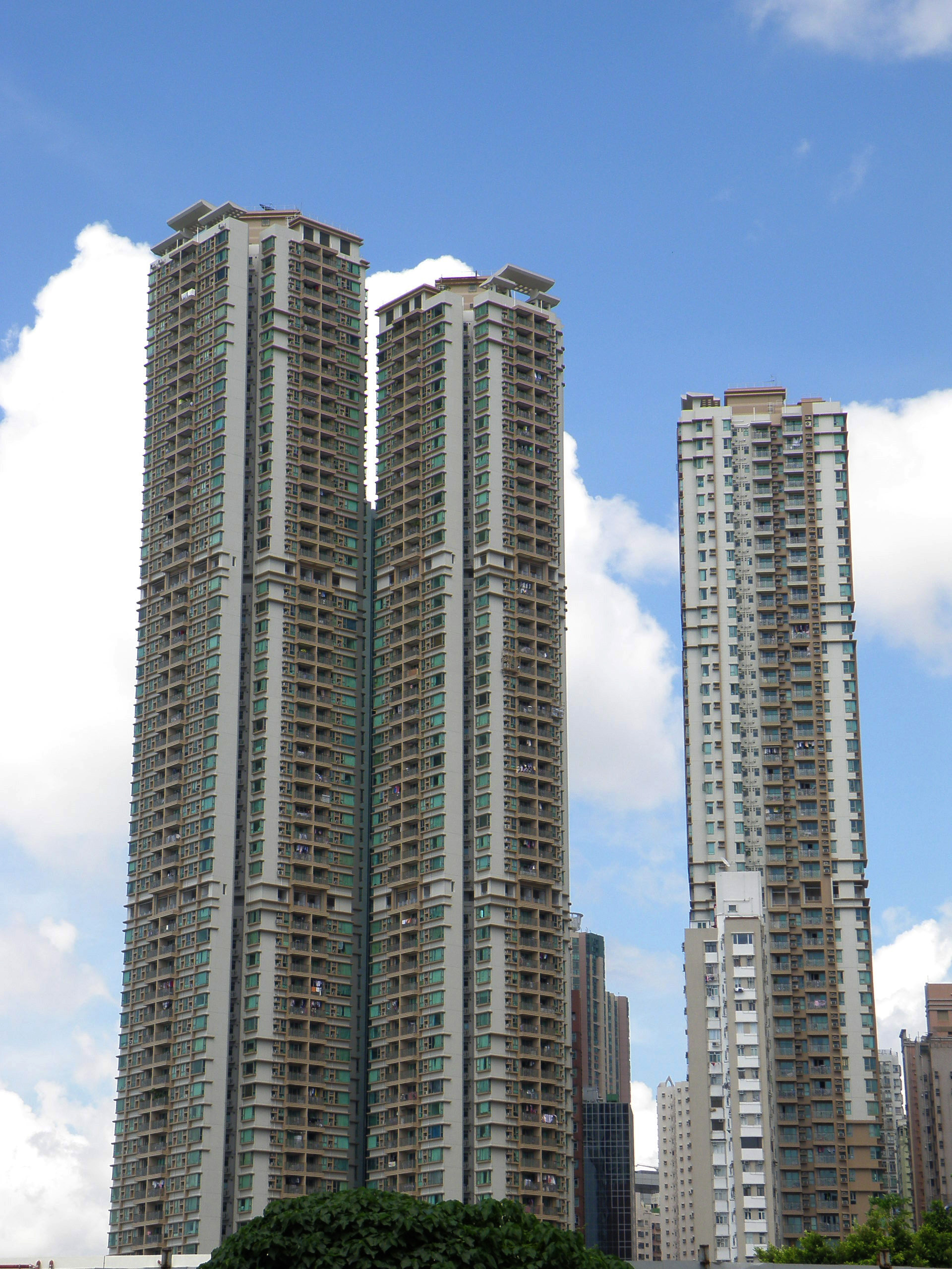 The Merton in Kennedy Town, Hong Kong.